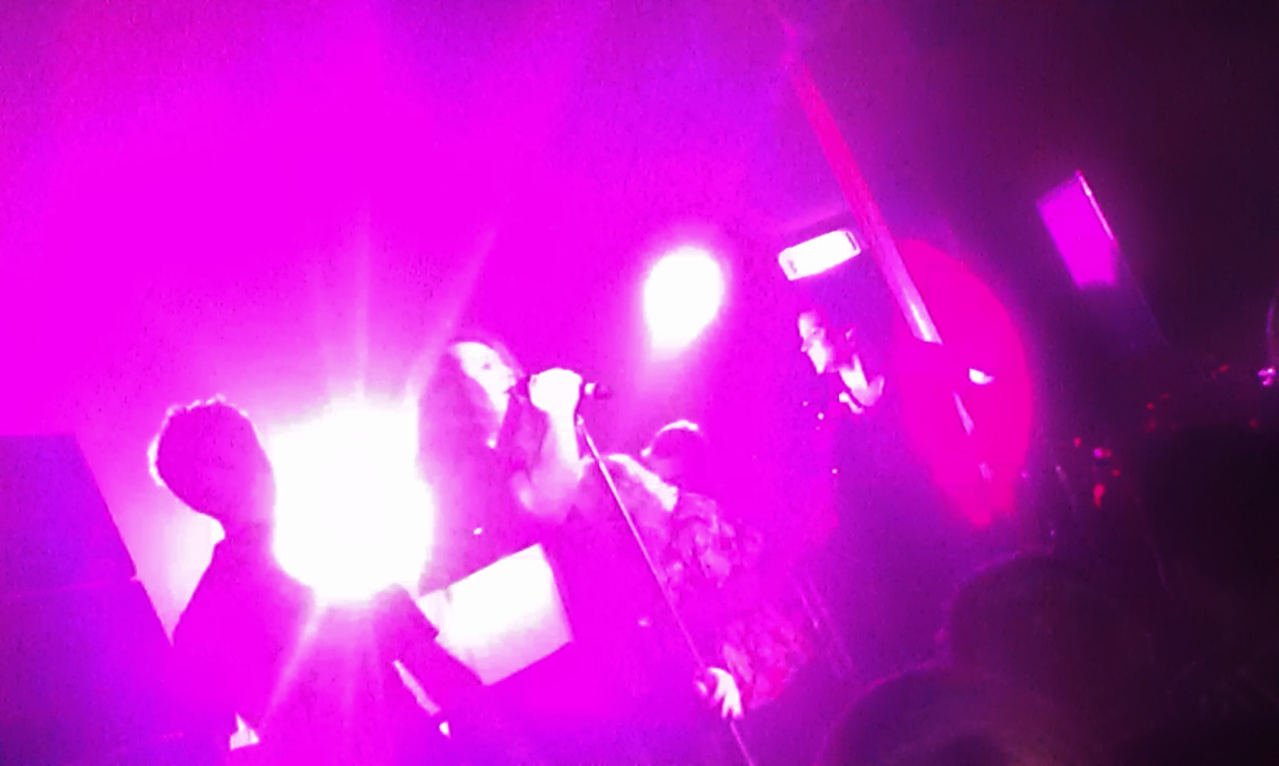 Antony Hegarty performing his hit song "Blind" as a part of the Hercules and Love Affair collective on Monday 06 August 2012 at the Southbank Centre's Meltdown Festival which he had curated.